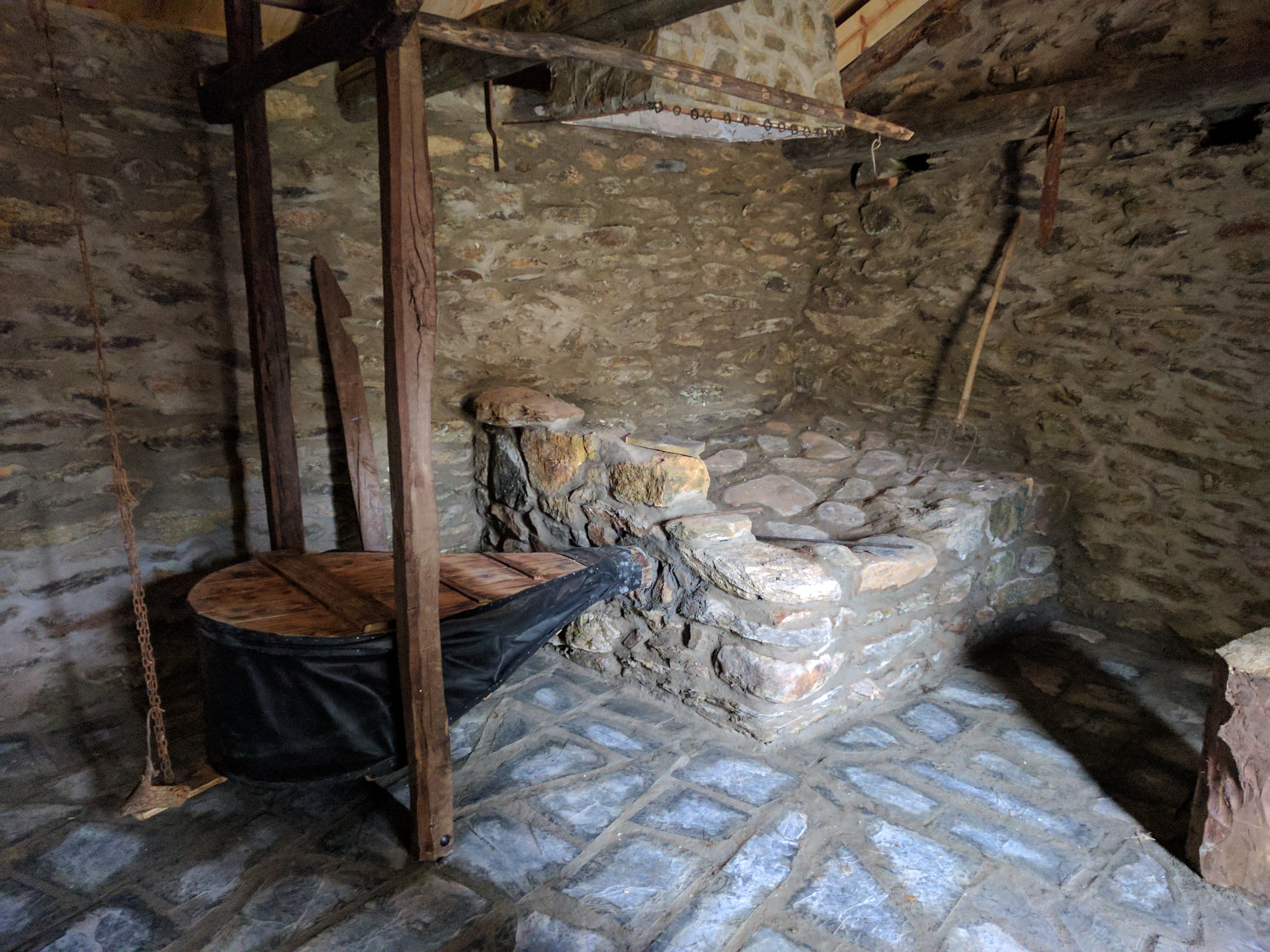 Interior de la fragua de Valdavido